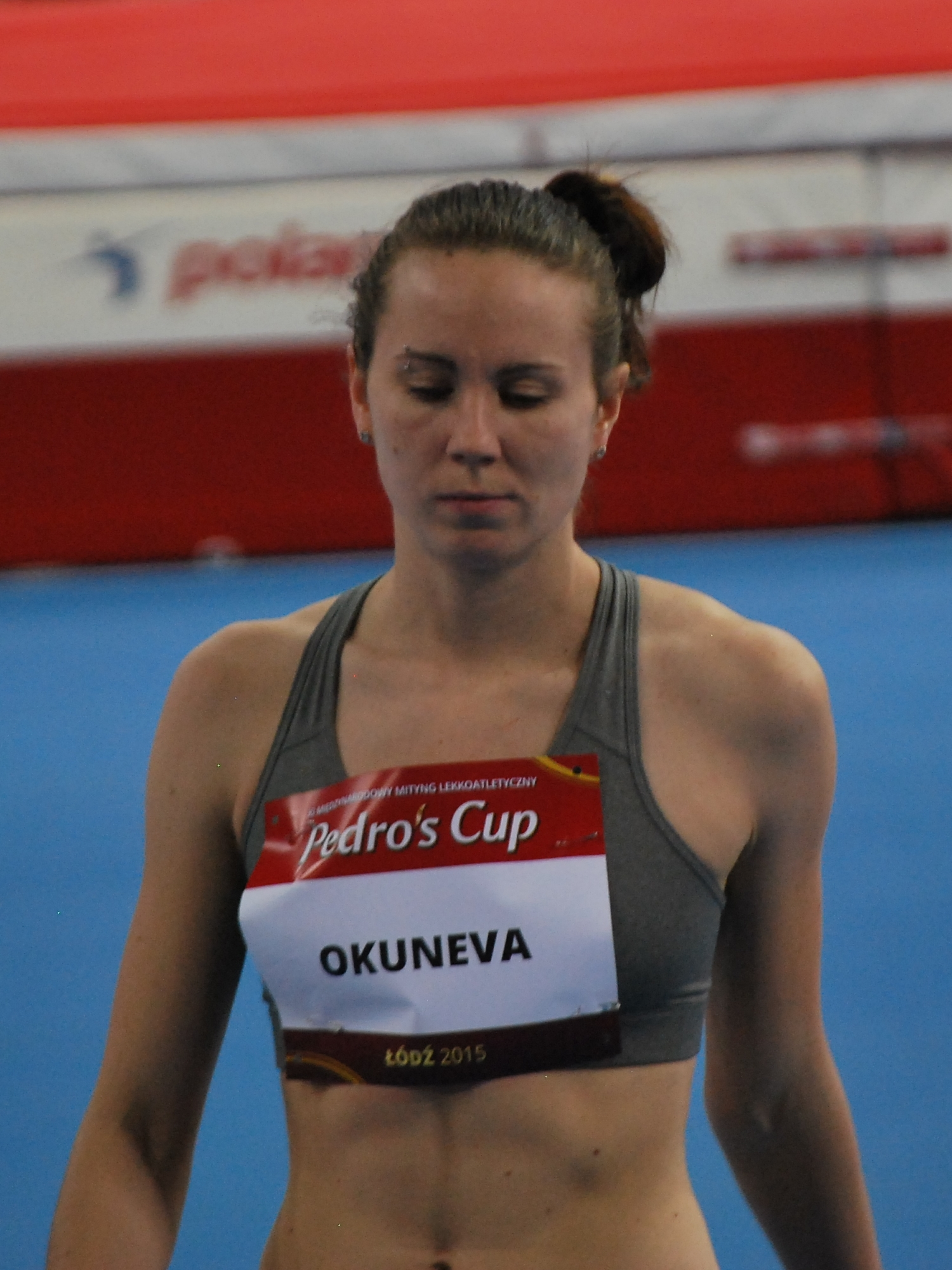 Pedros Cup 2015 Łódź, Oksana Okuneva, high jumper from Ukraine